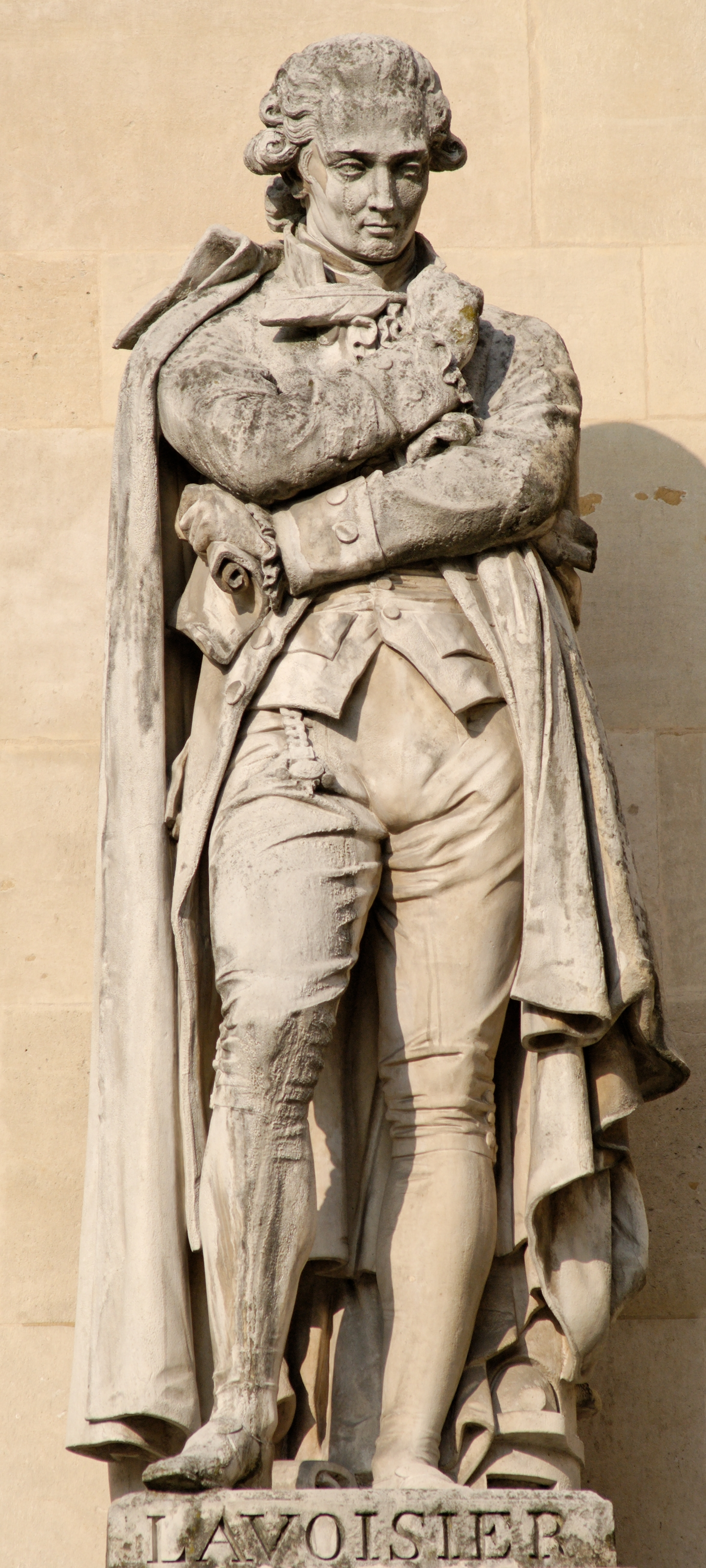 Lavoisier by Jacques-Léonard Maillet. Stone, ca. 1853. 5th statue from Pavillon Colbert to Pavillon Sully, Cour Napoléon in the Louvre.